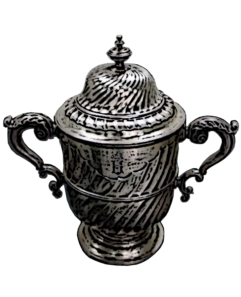 Football trophy awarded in the Bulgarian State Football Championship (1924-1937) and the Tournament for the Tsar's Cup (1938-1942)